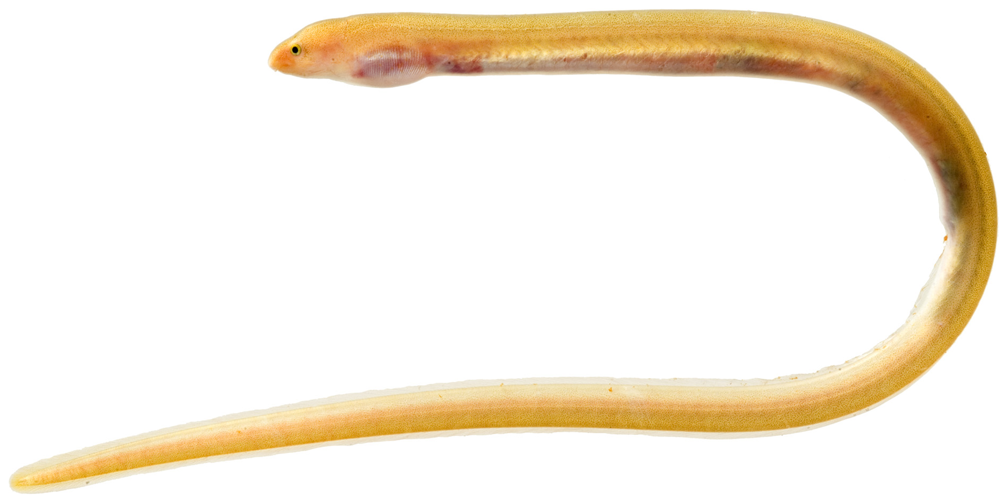 Ahlia egmontis (Jordan, 1884)—key worm eel, 183.0 mm TL. Photo by JT Williams.